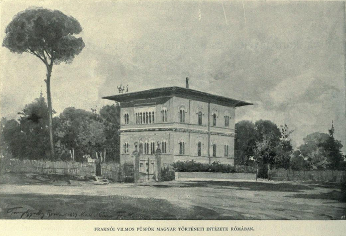 Hungarian Historical Institute, Rome